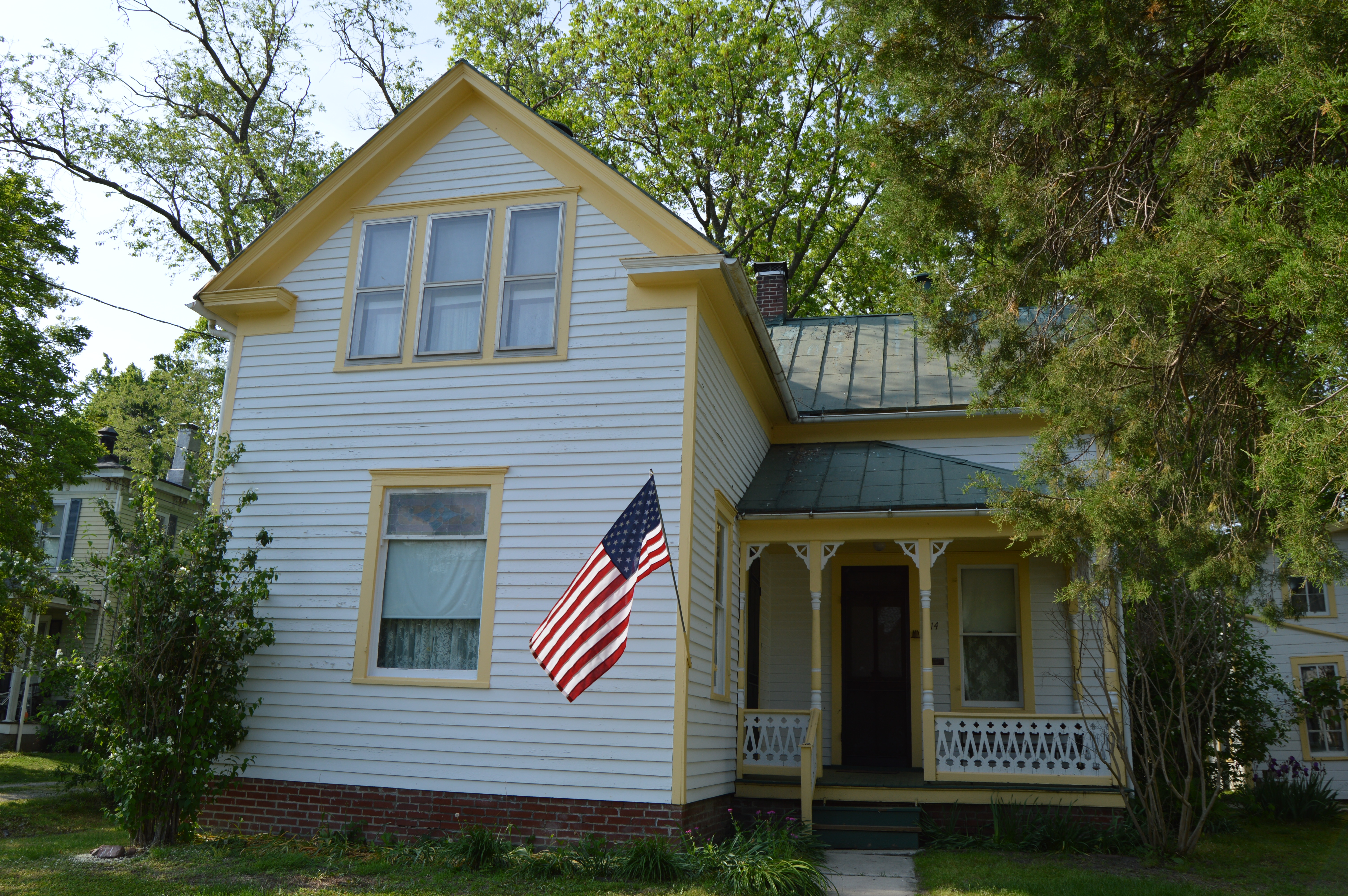 Front of the main house in the Heritage House Museum complex, located at 114 W. Walnut Street in Okawville, Illinois, United States. Built in 1908, it is listed with the rest of the complex on the National Register of Historic Places.